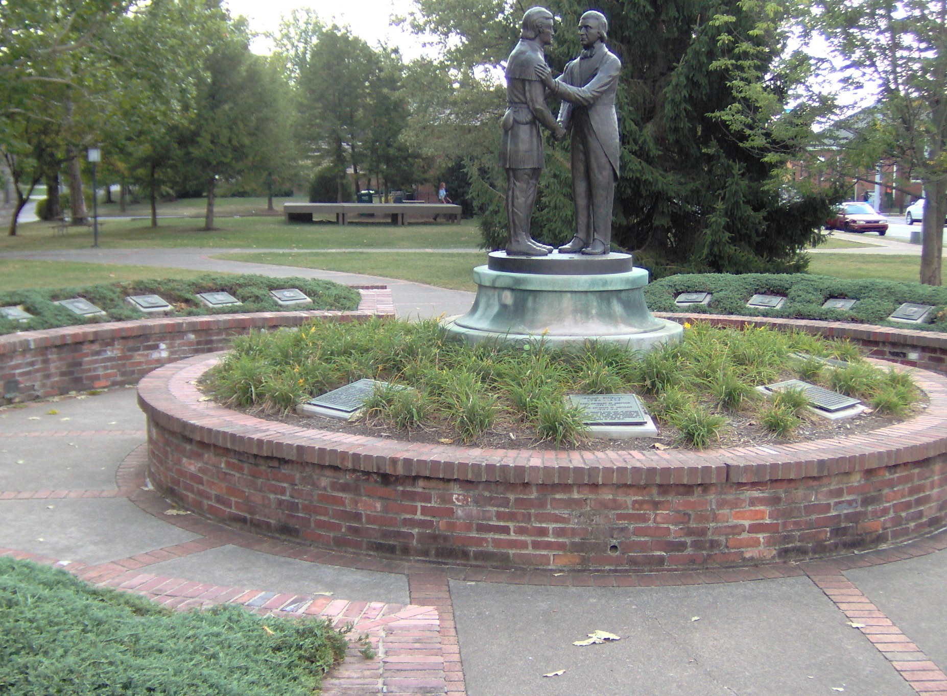 The Governor’s Circle at Constitution Square State Historic Site. A memorial honoring Kentucky governors with a bronze statue depicting the Kentucky state seal surrounded by plaques dedicated to each governor.